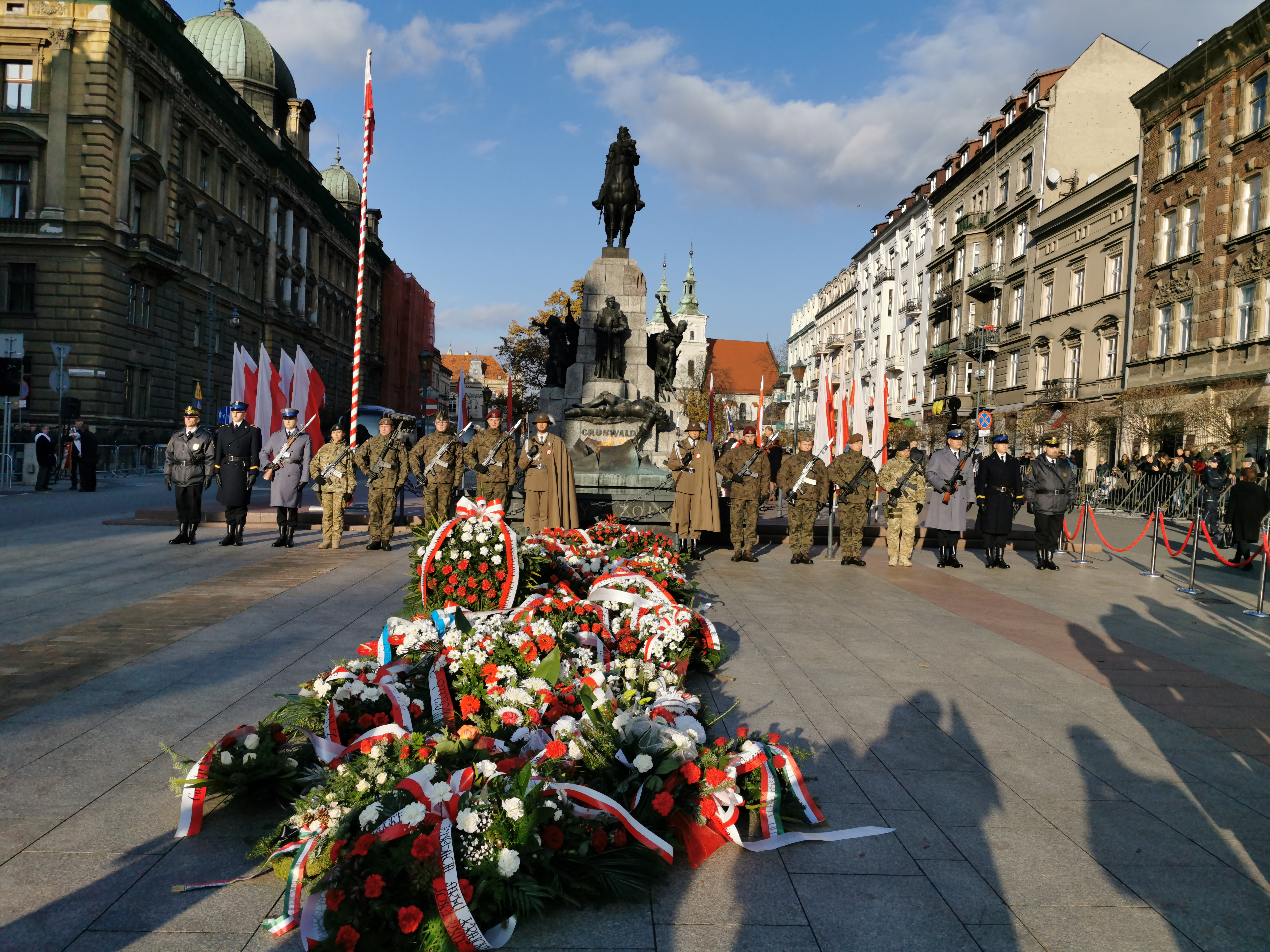 March of Independence. Kraków, Poland. From Wawel to Plac Jana Matejki.